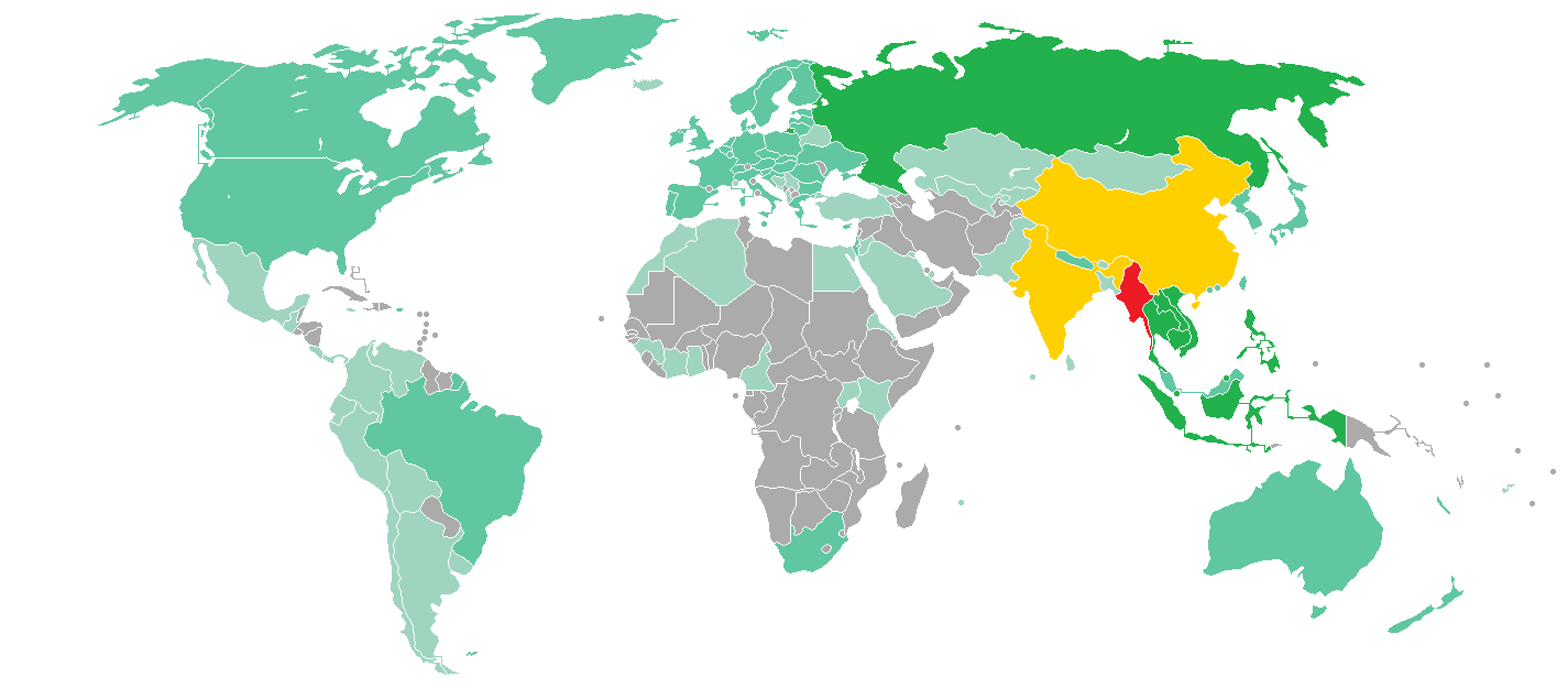 Visa policy of Myanmar Myanmar Visa-free (14 days; 30 days for Singapore) or eVisa for tourism or business (28 days) eVisa for tourism or business eVisa for tourism Visa on arrival Visa Required